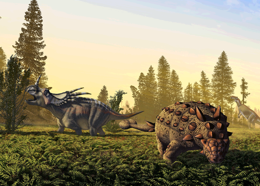 Depiction of dietary niche partitioning among megaherbivorous dinosaurs from the DPF (MAZ-2). Left to right: Chasmosaurus belli, Lambeosaurus lambei, Styracosaurus albertensis, Scolosaurus cutleri (formerly sunk in Euoplocephalus tutus), Prosaurolophus maximus, Panoplosaurus mirus. A herd of S. albertensis looms in the background.